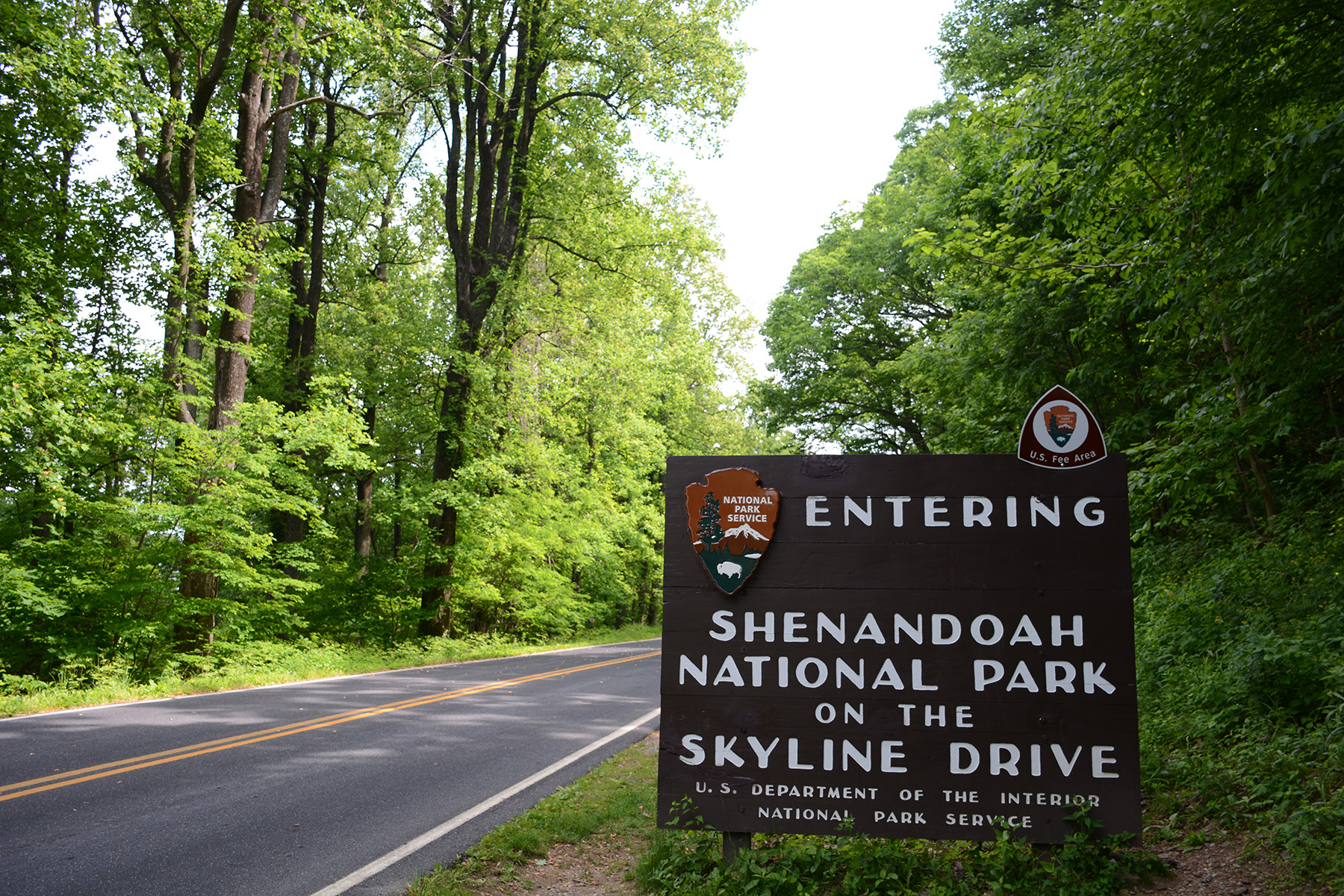 Skyline Drive Historic District